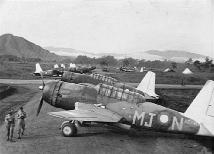 A line up of Vultee Vengeance dive bomber aircraft of No. 21 Squadron RAAF in the dispersal area of Nadzab airdrome, Markham Valley, Morobe Province, Papua New Guinea. In the foreground is aircraft coded MJ-N, RAAF s/n A27-60.